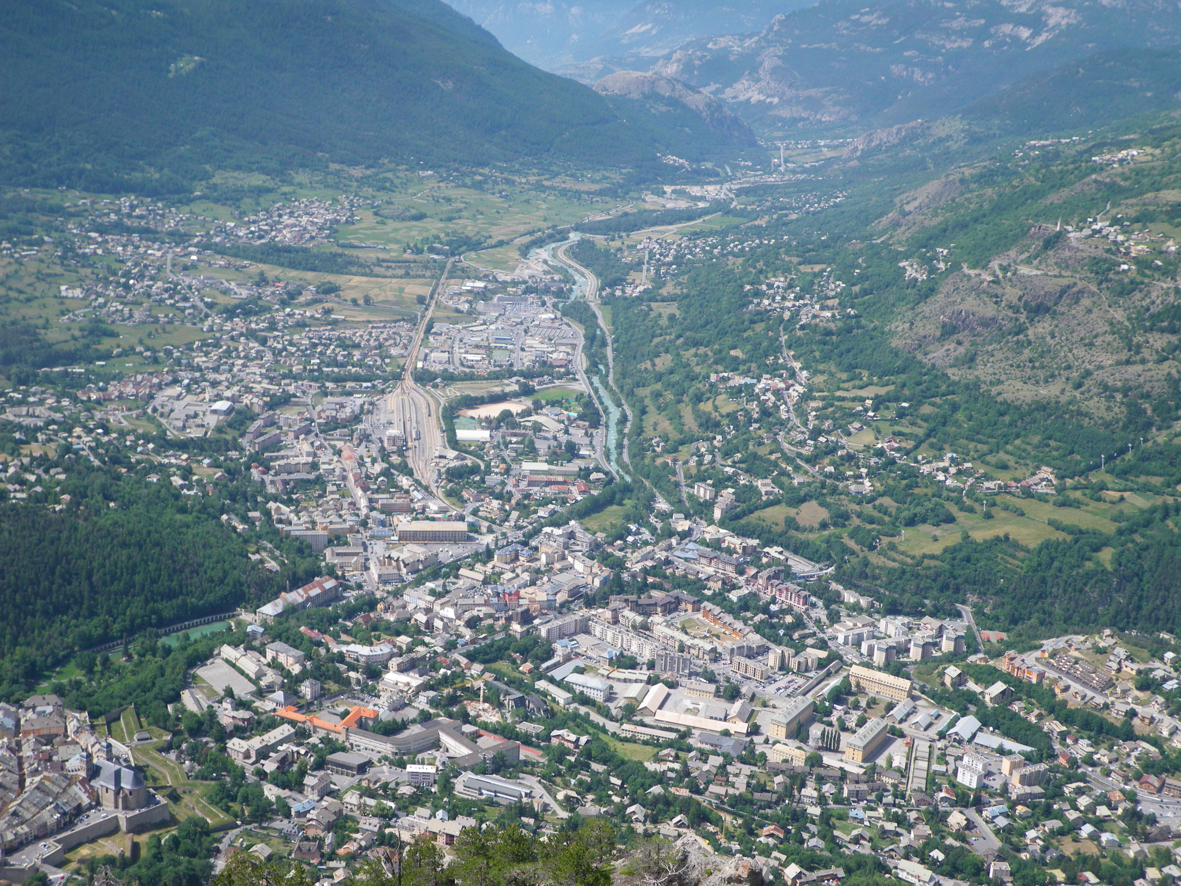 Briançon, Hautes-Alpes, France.